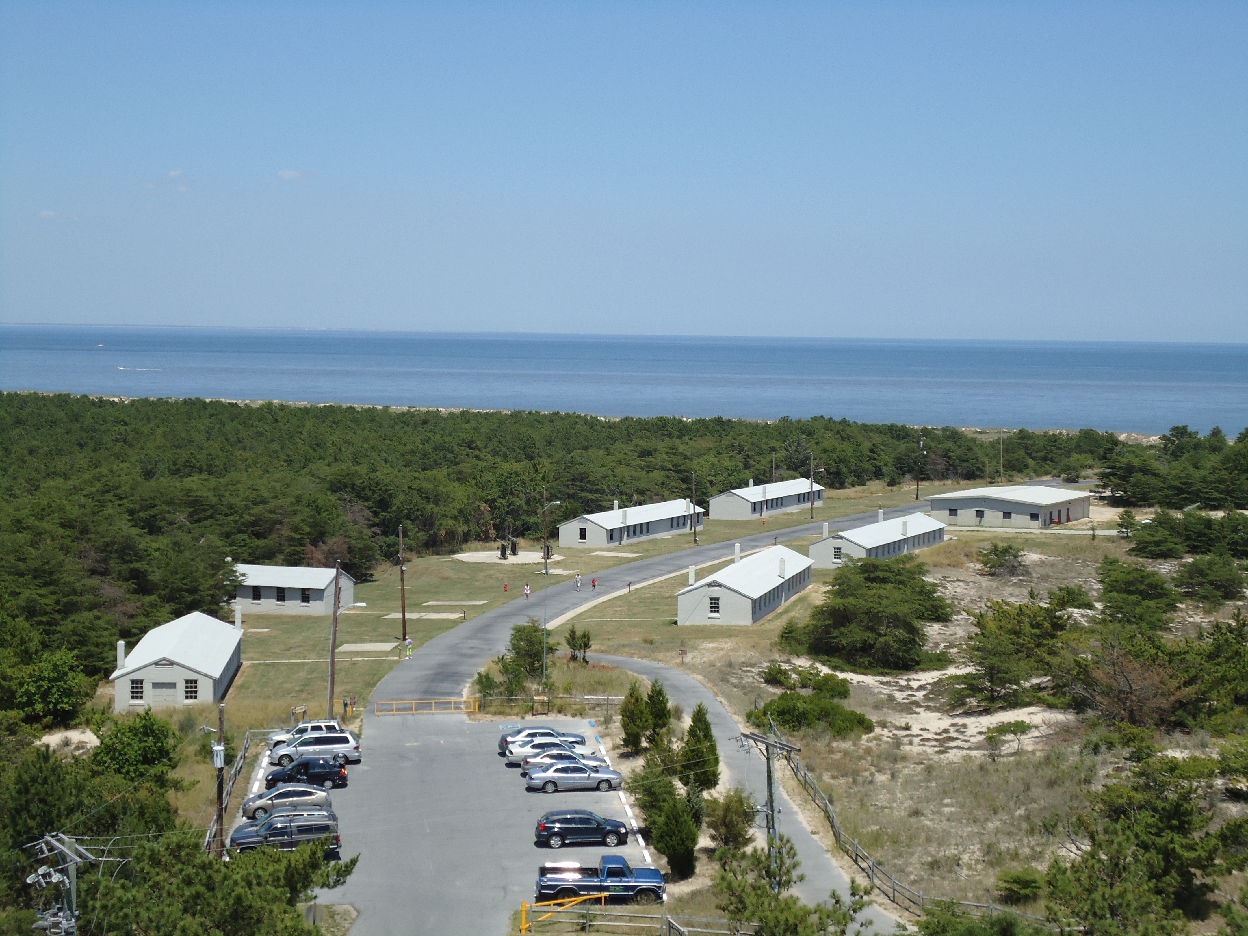 View of Fort Miles from one of the historic fire control towers that were built to spot enemy ships during WWII.